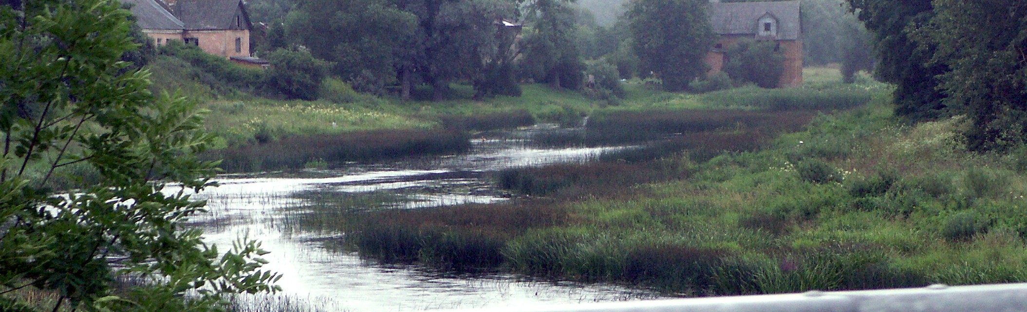 Nemunėlis river in Germaniškis, Biržai district, Lithuania